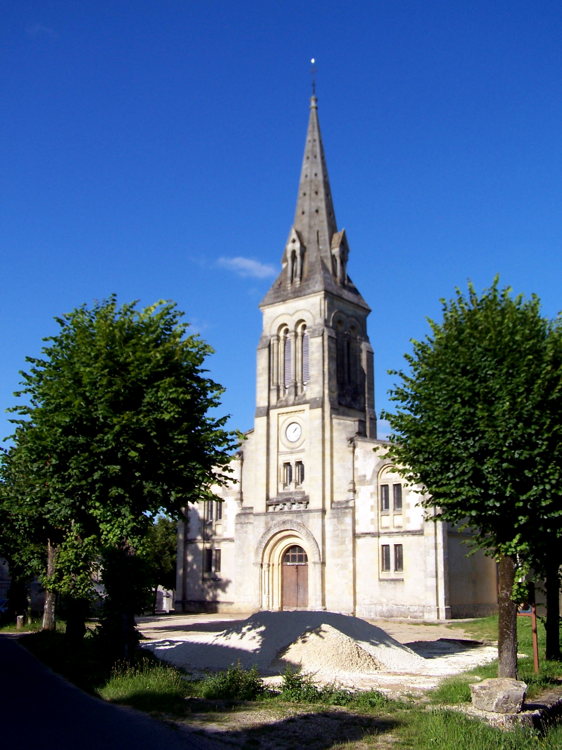 Saint Peter in Chains church of Langoiran (Gironde, France)